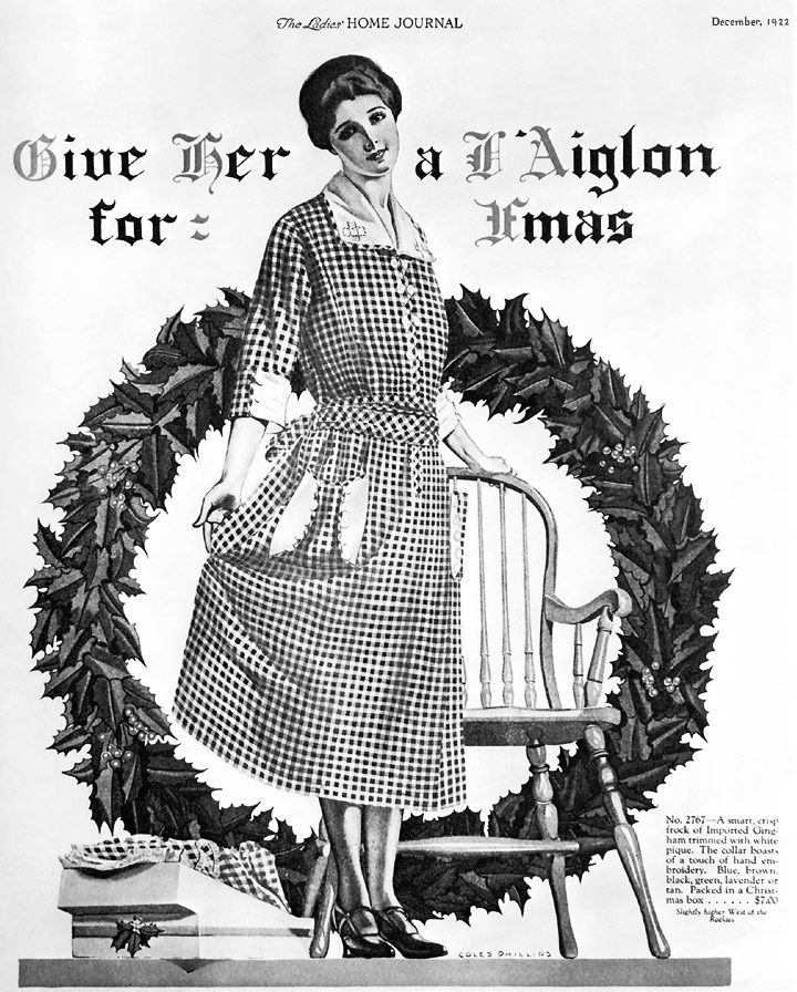 Advertisement from December 1922 issue of the Ladies Home Journal, showing use of abbreviation "Xmas". Artwork by Coles Phillips.